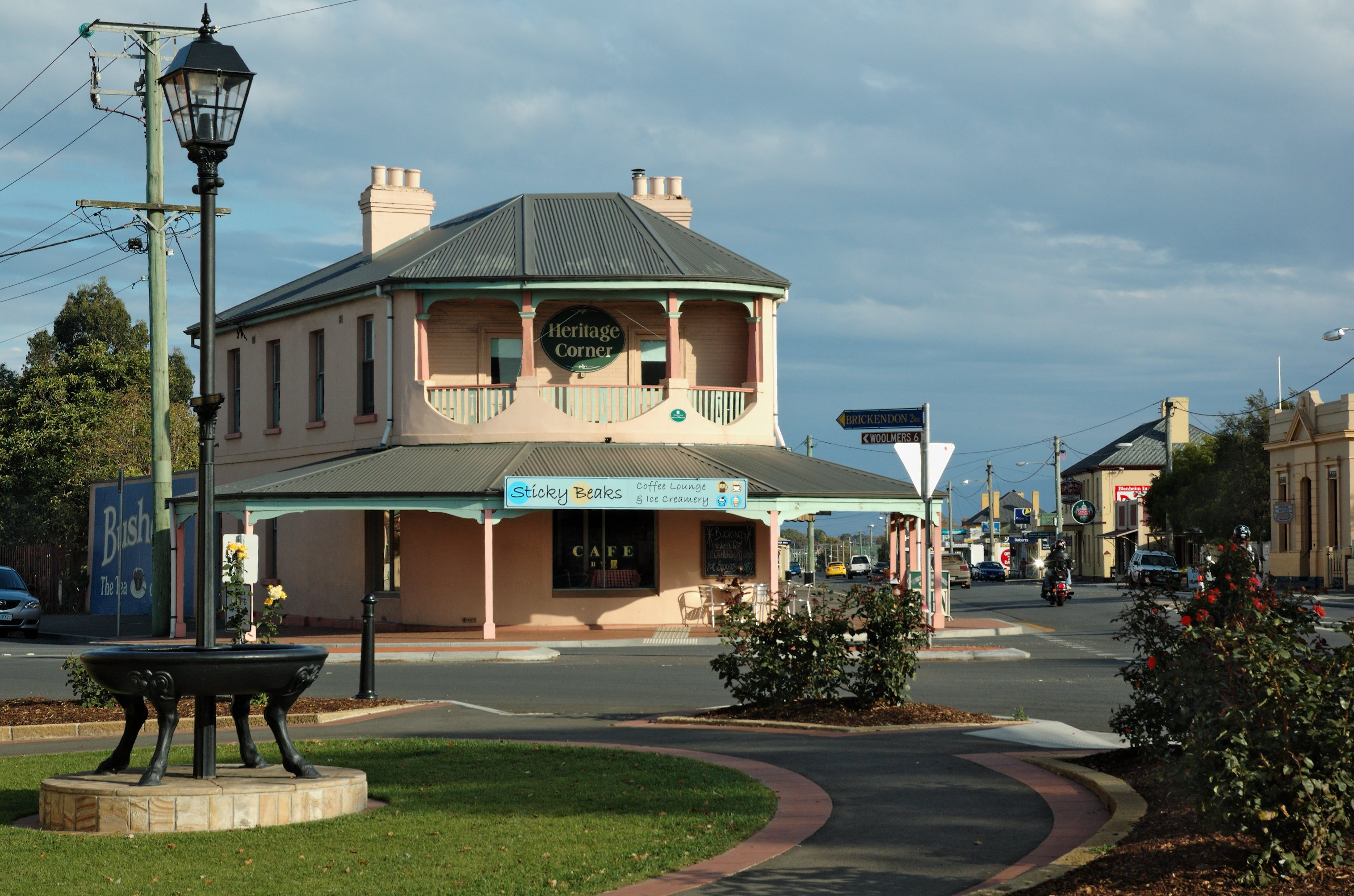 Heritage Corner, Longford, Tasmania. Built in the early 1830s and occupied by Sticky Beaks café. The horse trough and lamp standard on the left dates from 1897.